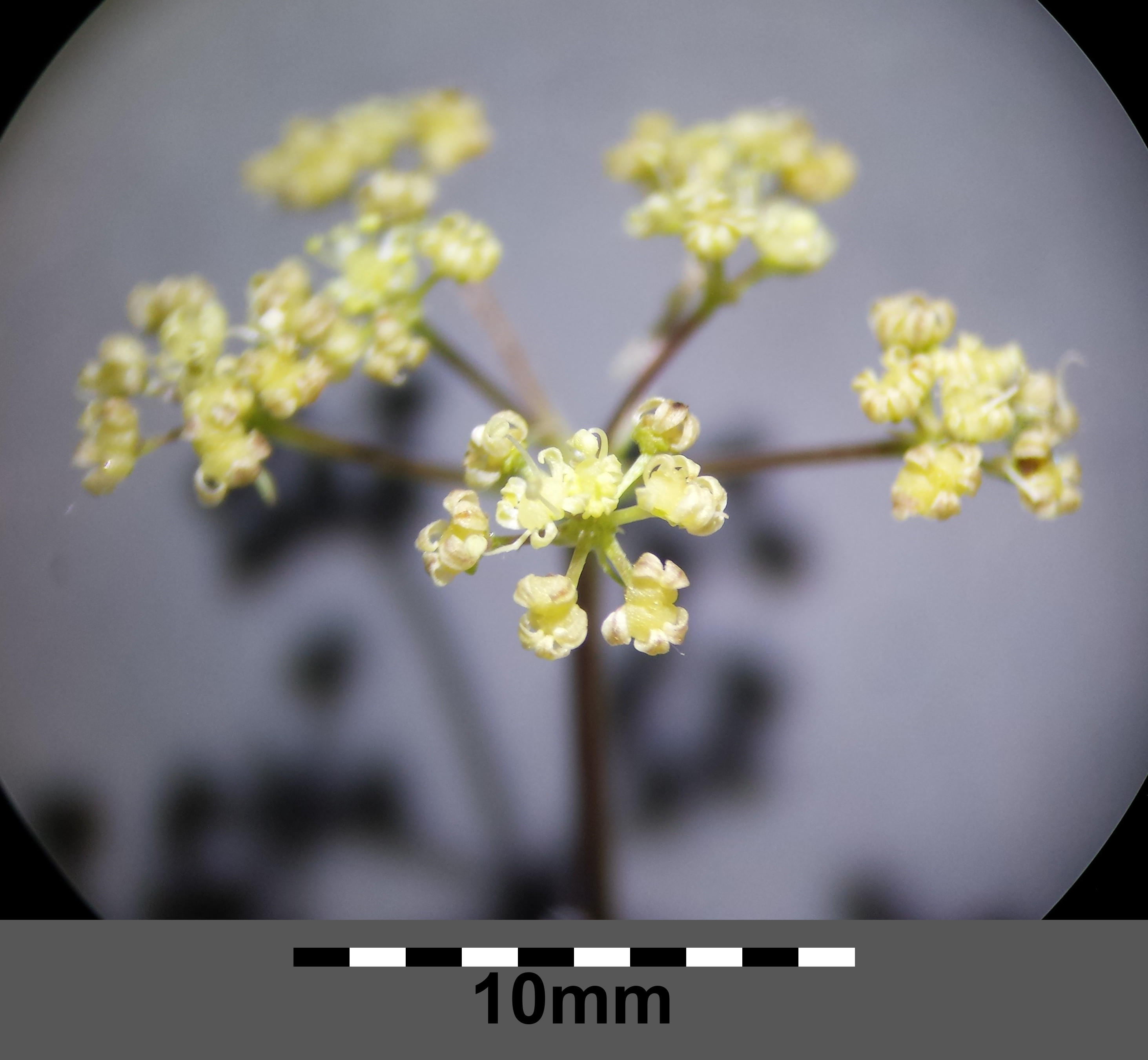 Umbel (♂-Individual) Taxonym: Trinia glauca (subsp. glauca) ss Fischer et al. EfÖLS 2008 ISBN 978-3-85474-187-9 Location: Blosenberg near Winzendorf, district Wiener Neustadt, Lower Austria - ca. 380 m a.s.l. Habitat: dry grassland